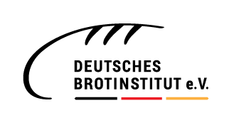 Brand and Logo "Deutsches Brotinstitut e.V."